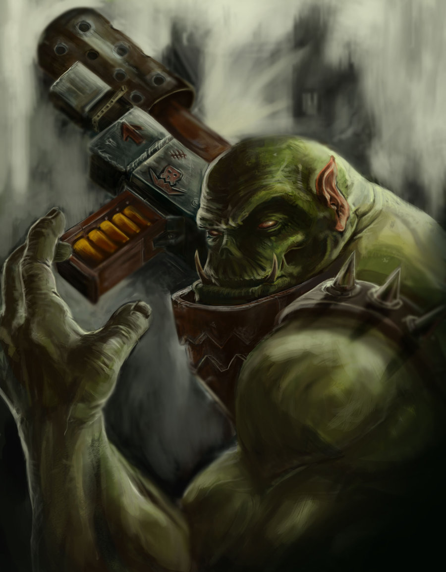 A futuristic Ork from Warhammer 40,000.